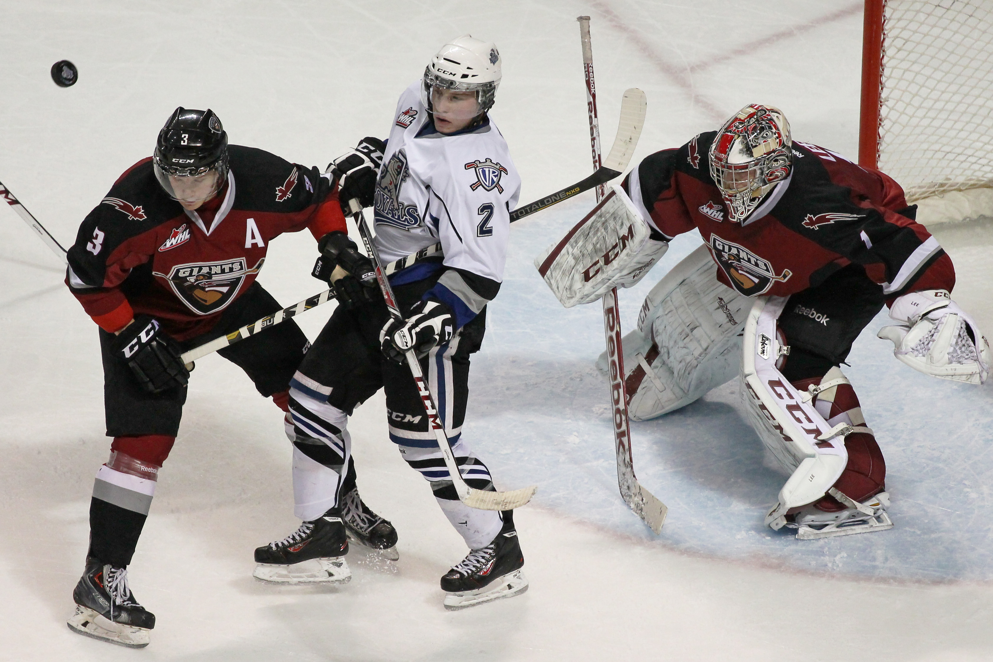 Victoria Royals and Vancouver Giants, January 31, 2014, featuring Brett Kulak (#3), Joe Hicketts (#2), and Payton Lee (#1)